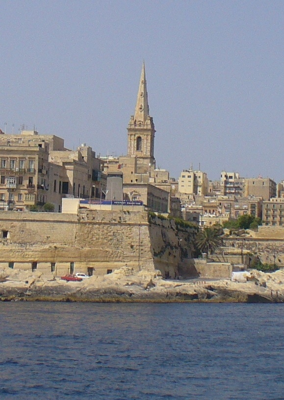 St. Paul's Anglican Cathedral in Valletta.